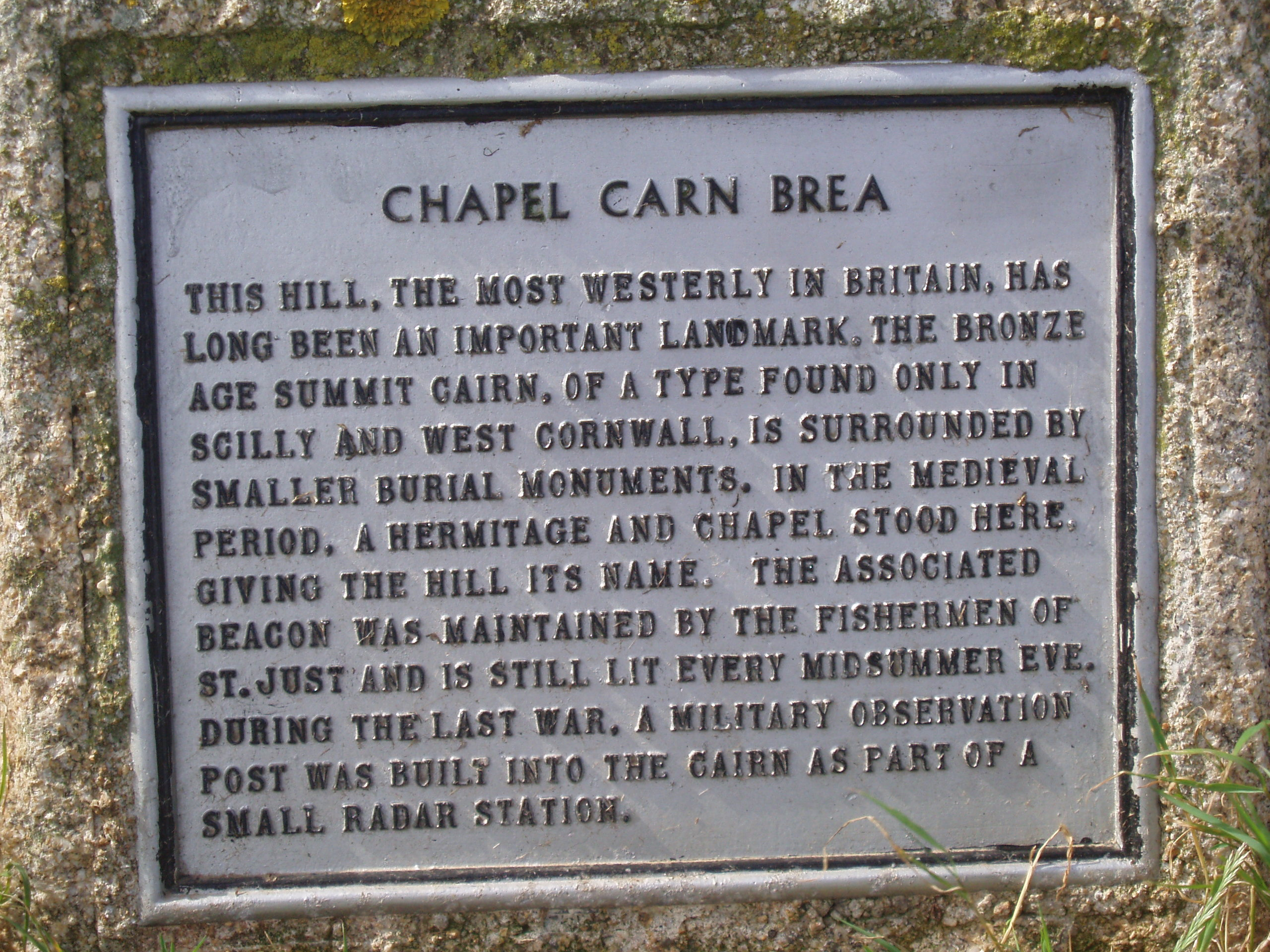 Photo taken and uploaded by Mammal4 Summary Photo taken and uploaded by Mammal4